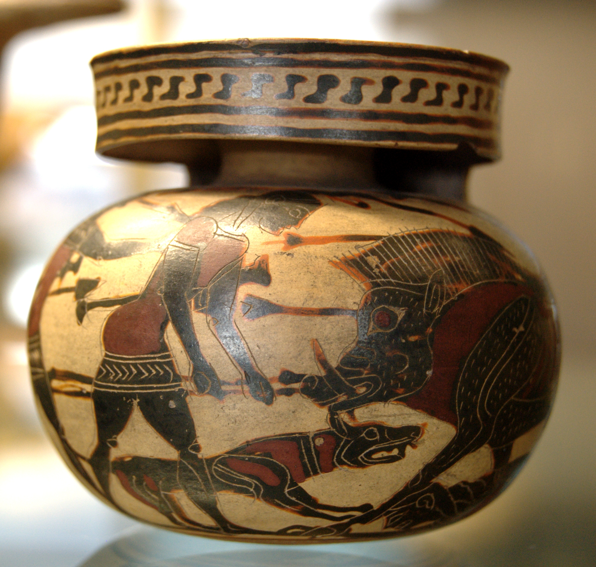 Calydonian Boar hunt. Corinthian black-figured aryballos, ca. 580 BC.